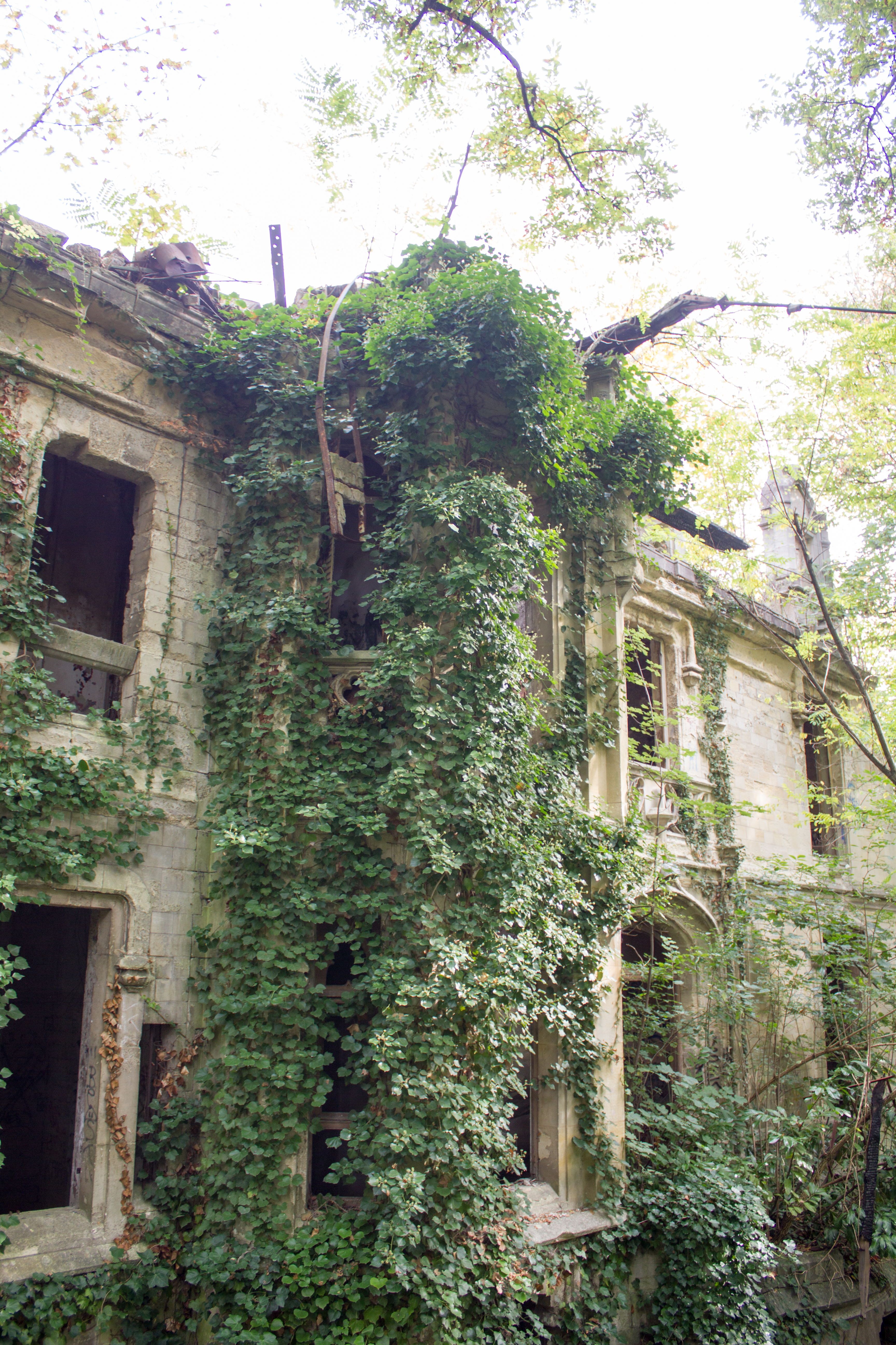 Ruins of the Château de la Solitude (“Castle of Loneliness”) in the Bois de la Solitude, Le Plessis-Robinson, Hauts-de-Seine, France.